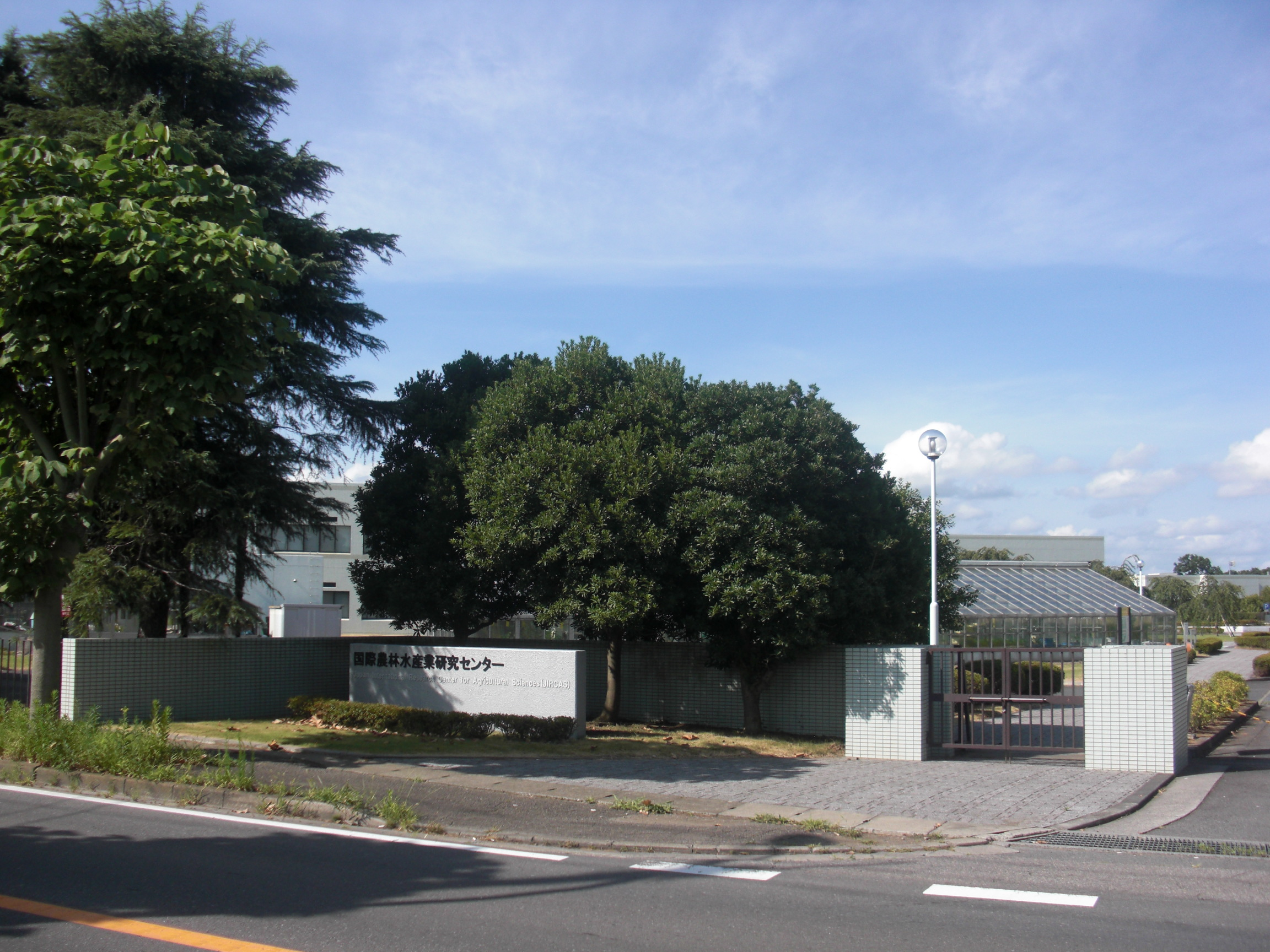 This is a gate of Japan International Research Center for Agriculture Science.